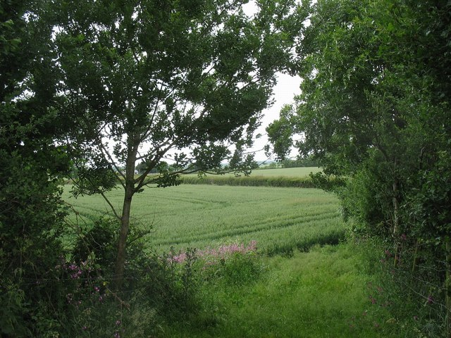 Cropland east of Tanpencefnbach The photo was taken from the top of the low limestone ridge. Tanpencefn, (occurring in the name two small holdings in this area) means simply "below the ridge top" The ridge has been quarried along almost all of its length.